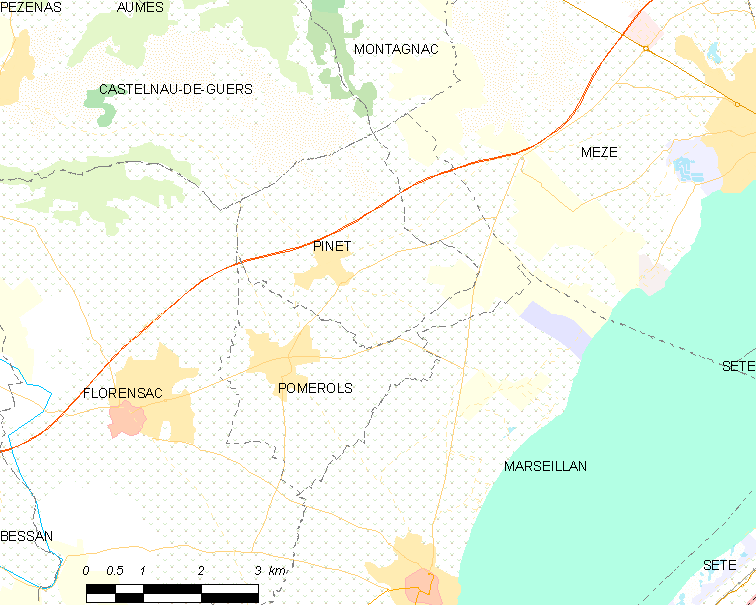 Map commune FR insee code 34207.png - Pomérols